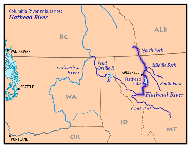 This is a map of the Flathead River —in the Western United States and Canada. Credits I, Pfly, created it based on USGS and Digital Chart of the World data.